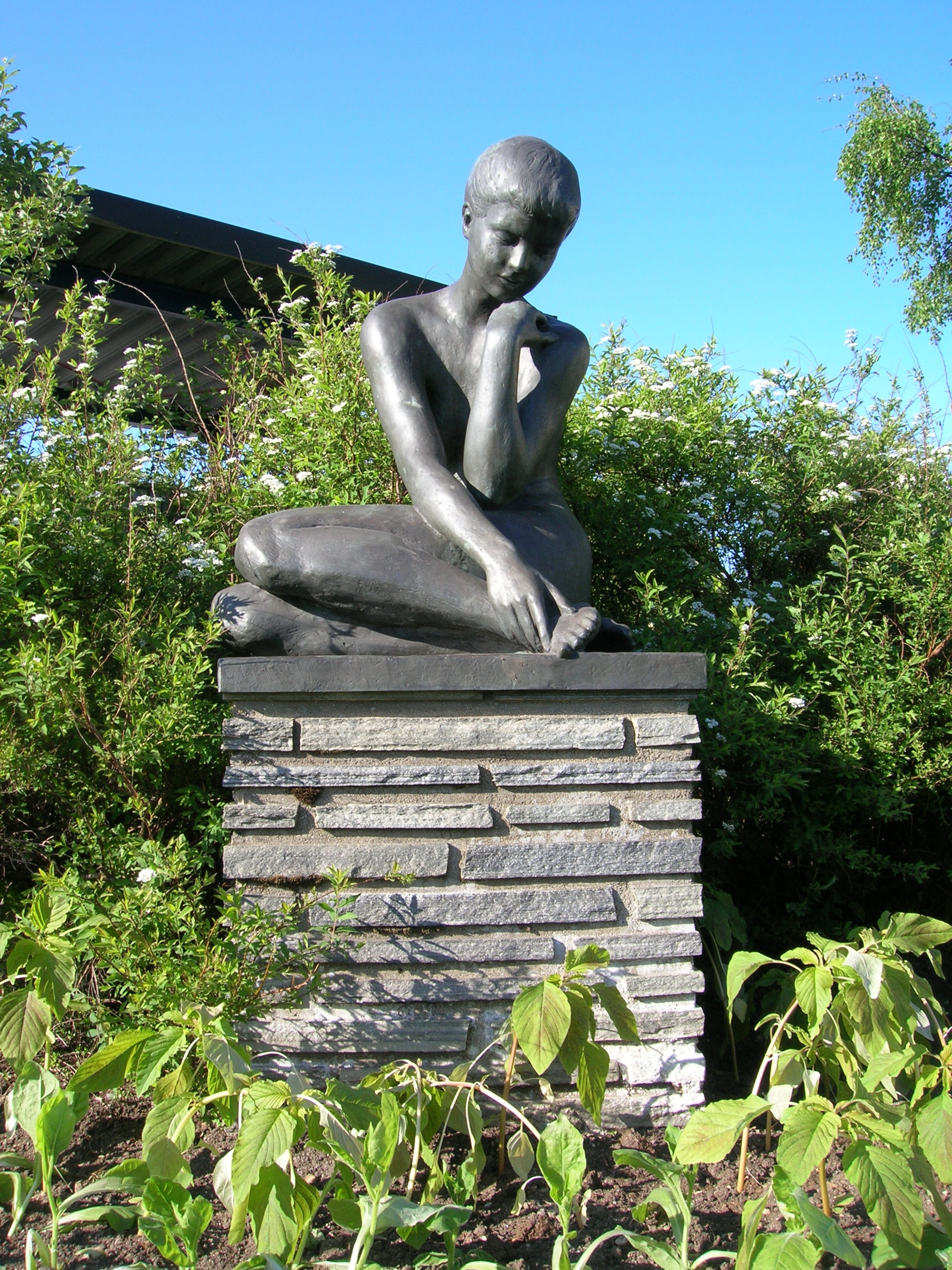 Bronze sculpture of Rana-Niejta ("the daughter of Earth") in Mo i Rana, Rana municipality, Norway. Snapshot June 9, 2007 with a NIKON Coolpix 5600 5,1 Megapixel camera.